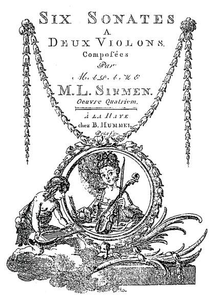 Title page six sonates for two violines by Maddalena Laura Sirmen, Den Haag 1773